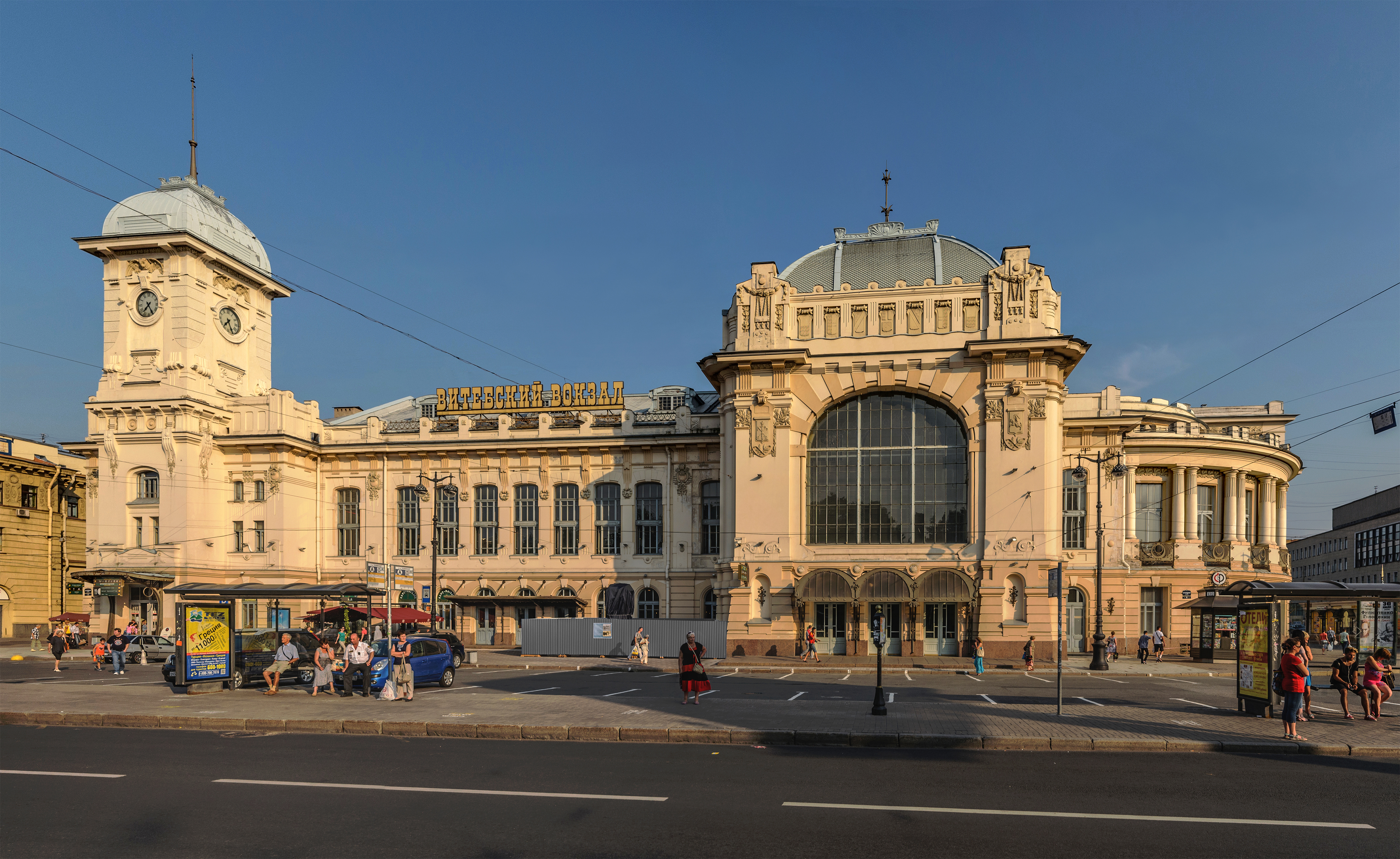 Vitebsky Rail Terminal in Saint Petersburg